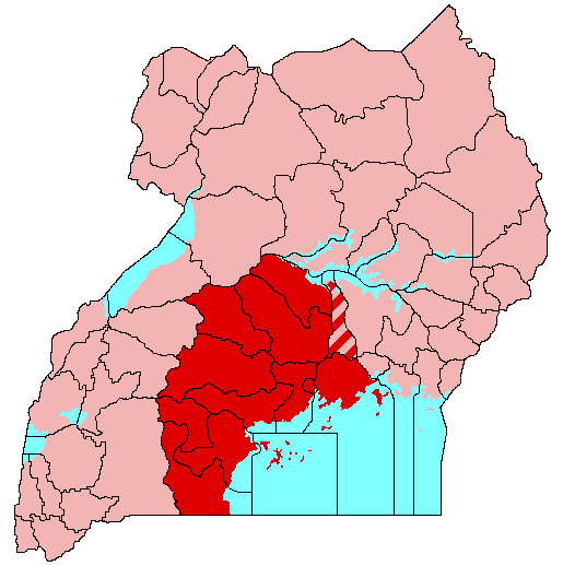 Ugandan kingdom of Buganda and its districts, showing the seccession of Kayunga